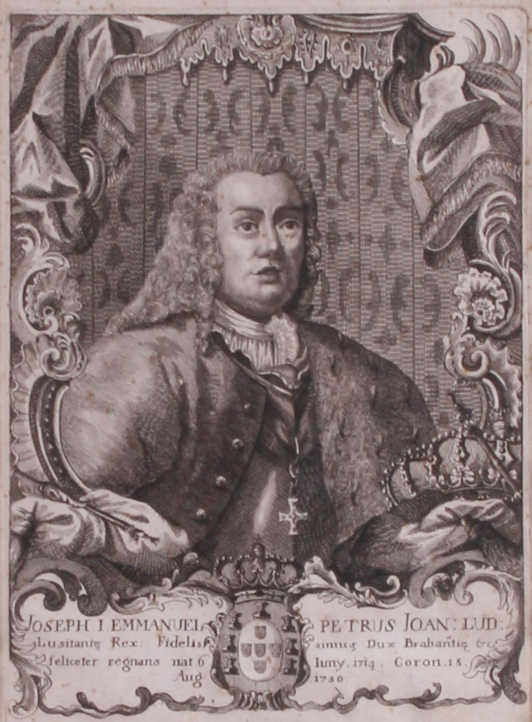 King Joseph I of Portugal (1714-1777)